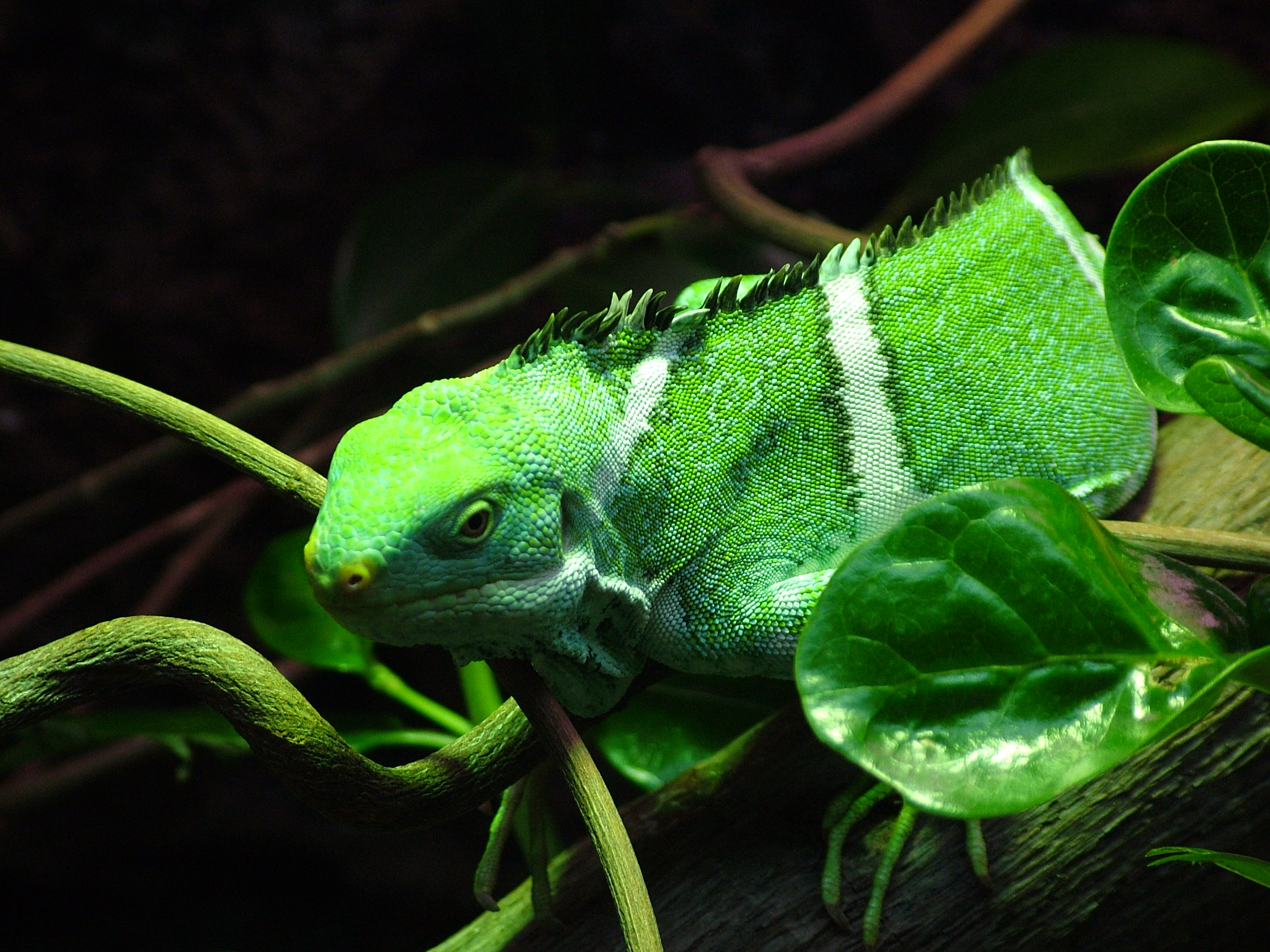 Photographer: Antony Street ...this is not a chameleon, it is an iguana. Subject: Green Lizard Location: Perth Zoo, Western Australia